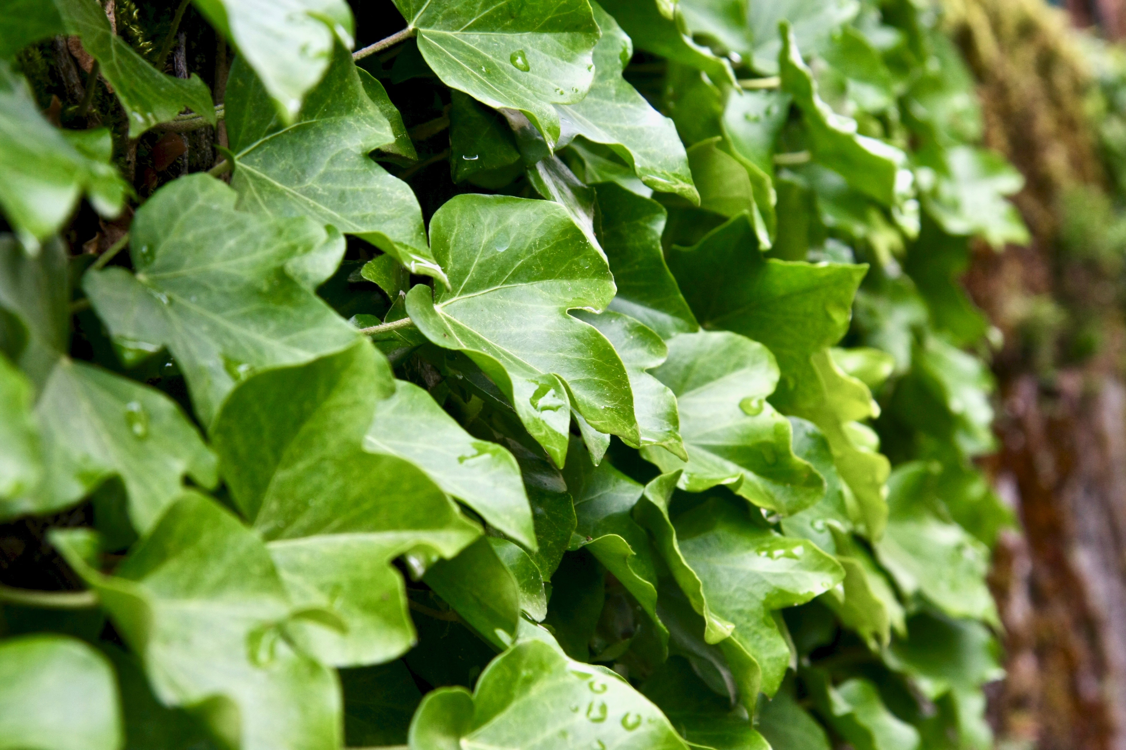 Ivy on a wall in Switzerland